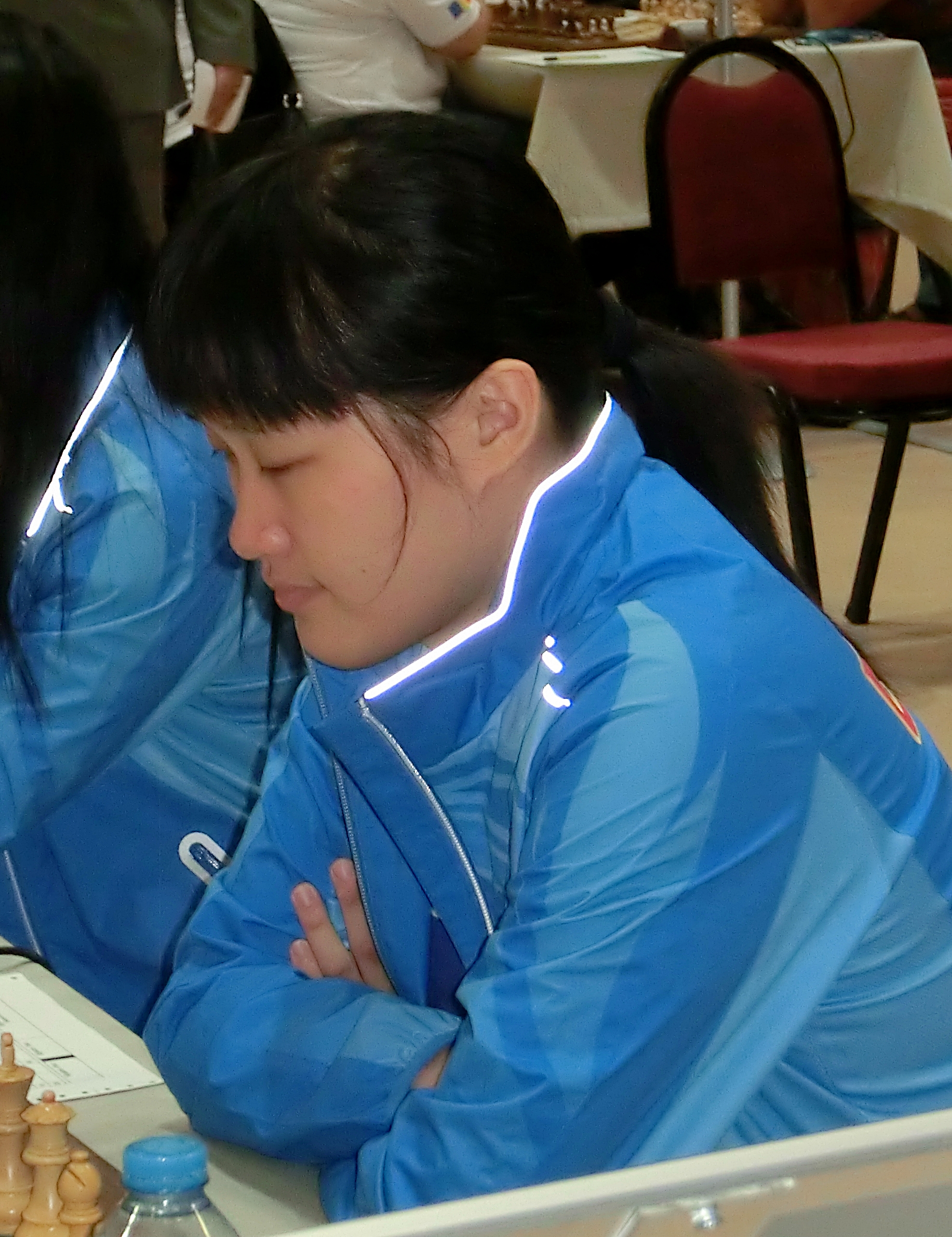 Zhao Xue, chess player from China